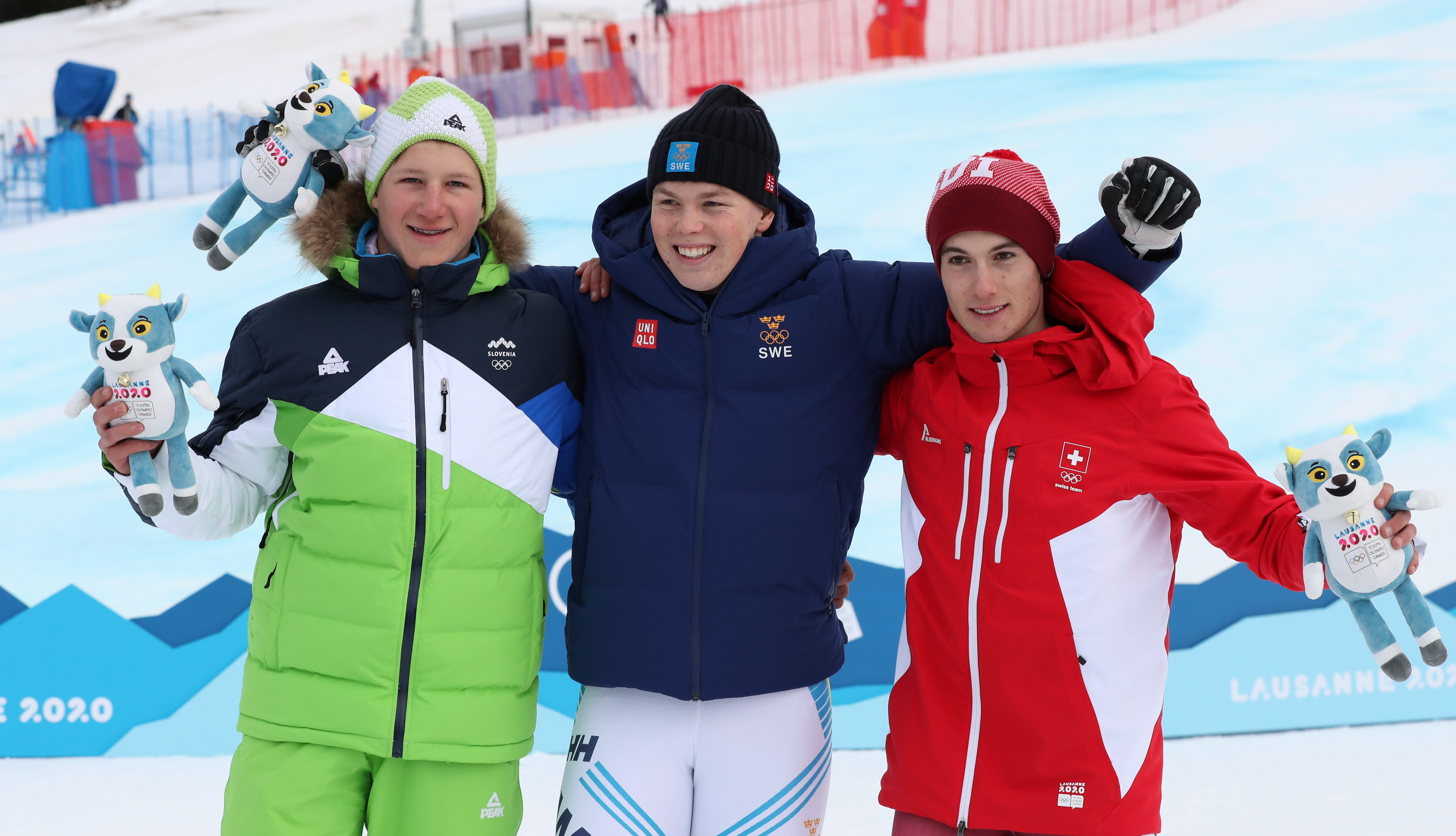 Men's Super G at the 2020 Winter Youth Olympics in Lausanne